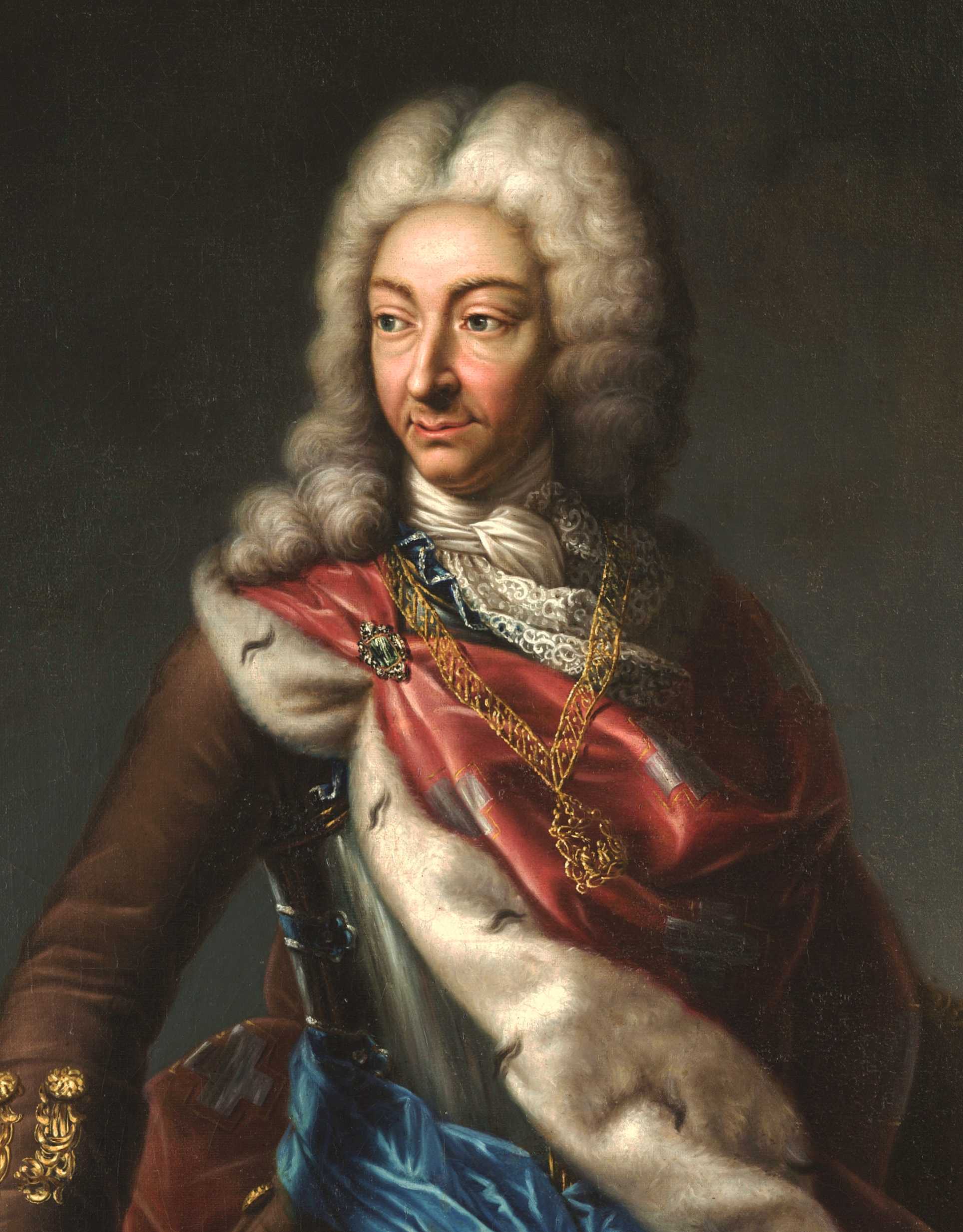 Victor Amadeus II of Sardinia (1666-1732)